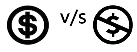 OER - Commercial vs non-commercial License